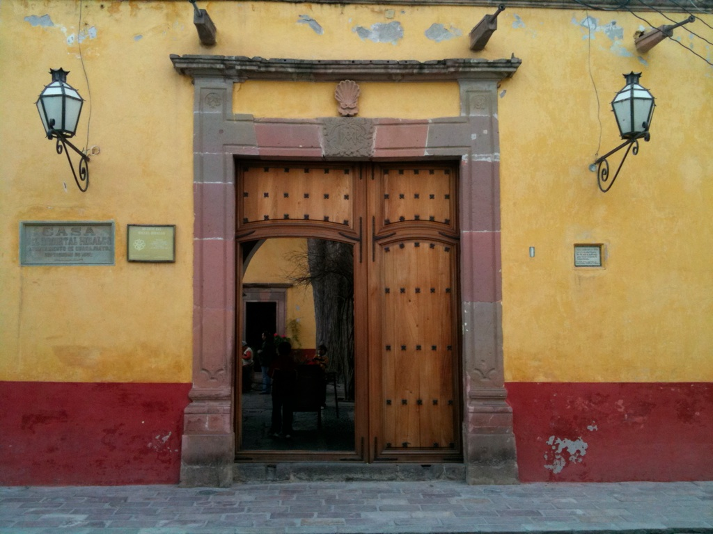 Façade of the house inhabited by Miguel Hidalgo in Dolores Hidalgo, Mexico